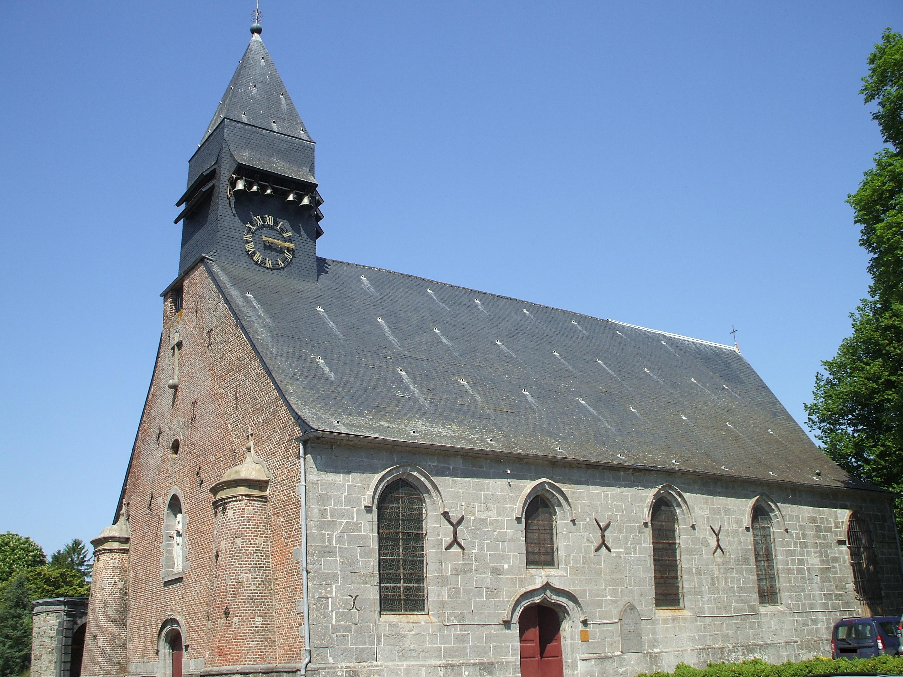 Saint Hiltrude church's of Liessies (Nord - France)